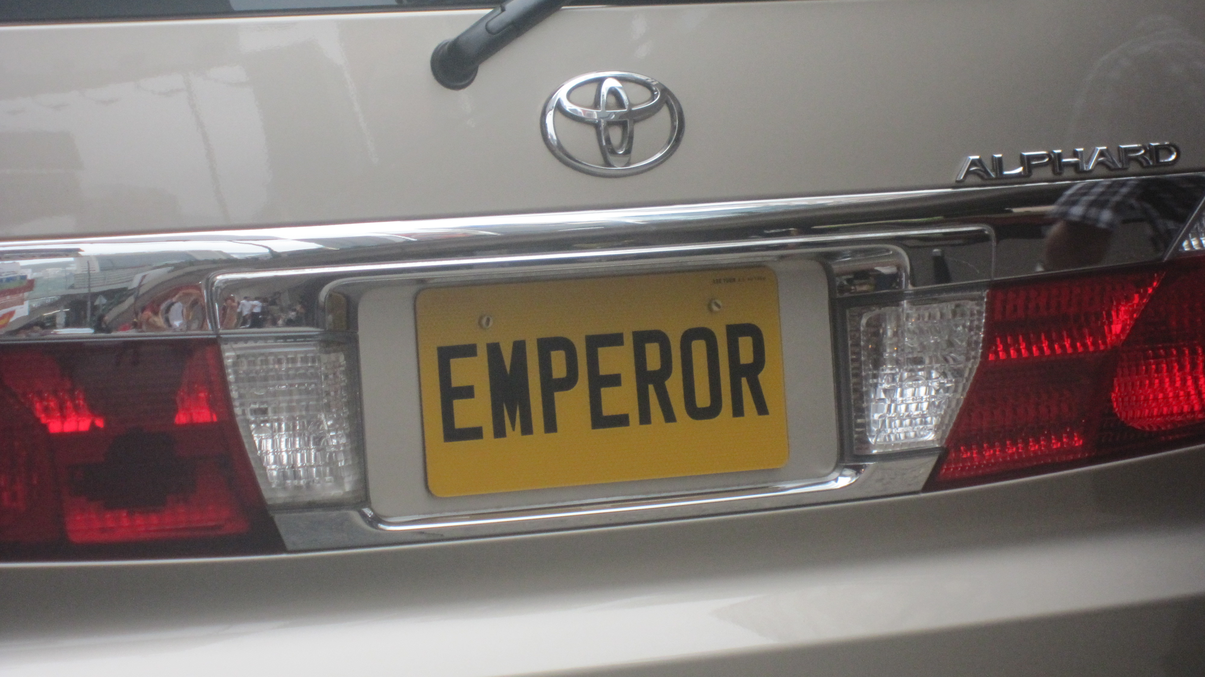 A car nameed 'EMPEROR' under Personalized Vehicle Registration Marks Scheme